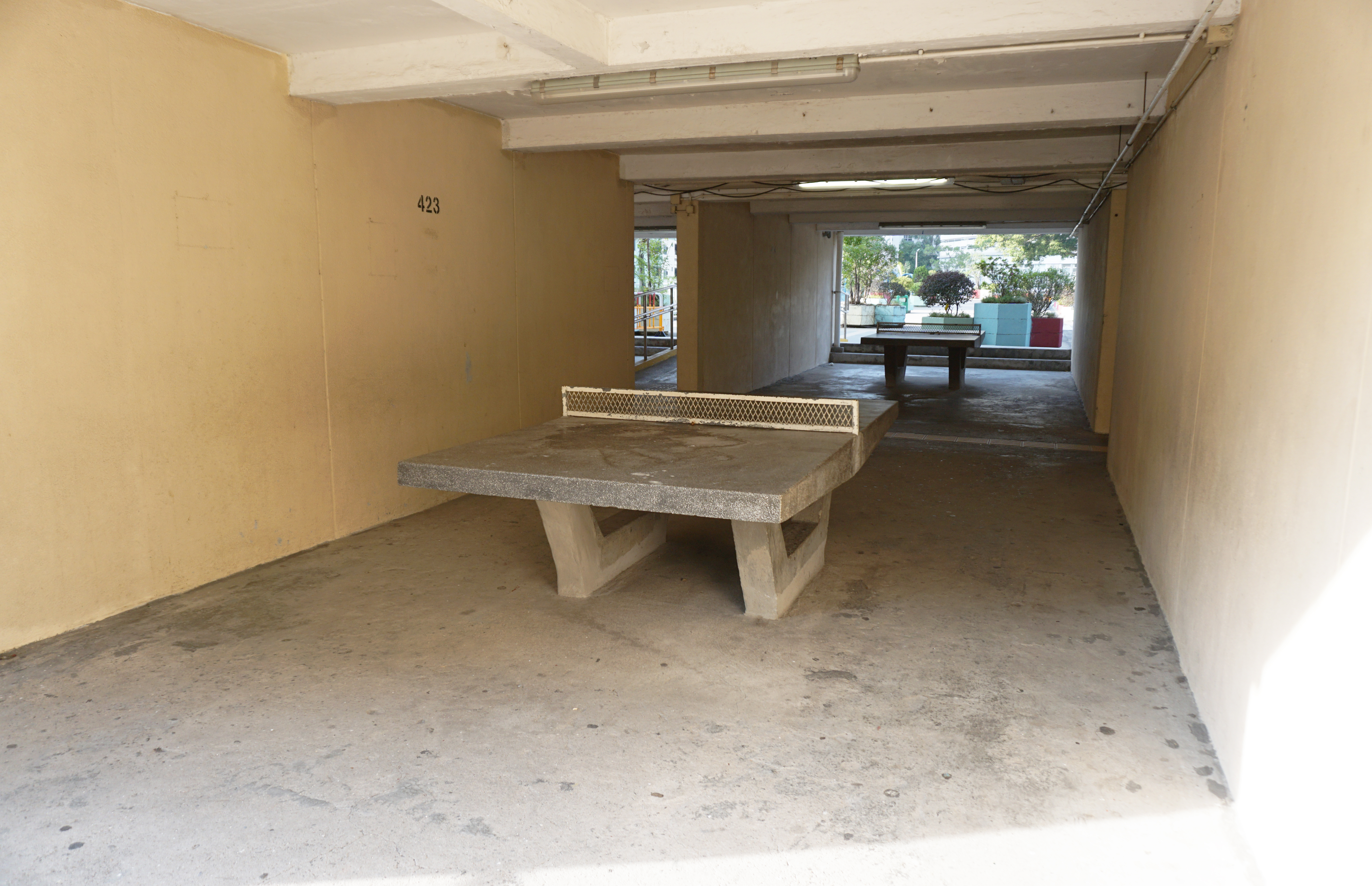 Oi Man Estate in Ho Man Tin, Hong Kong.